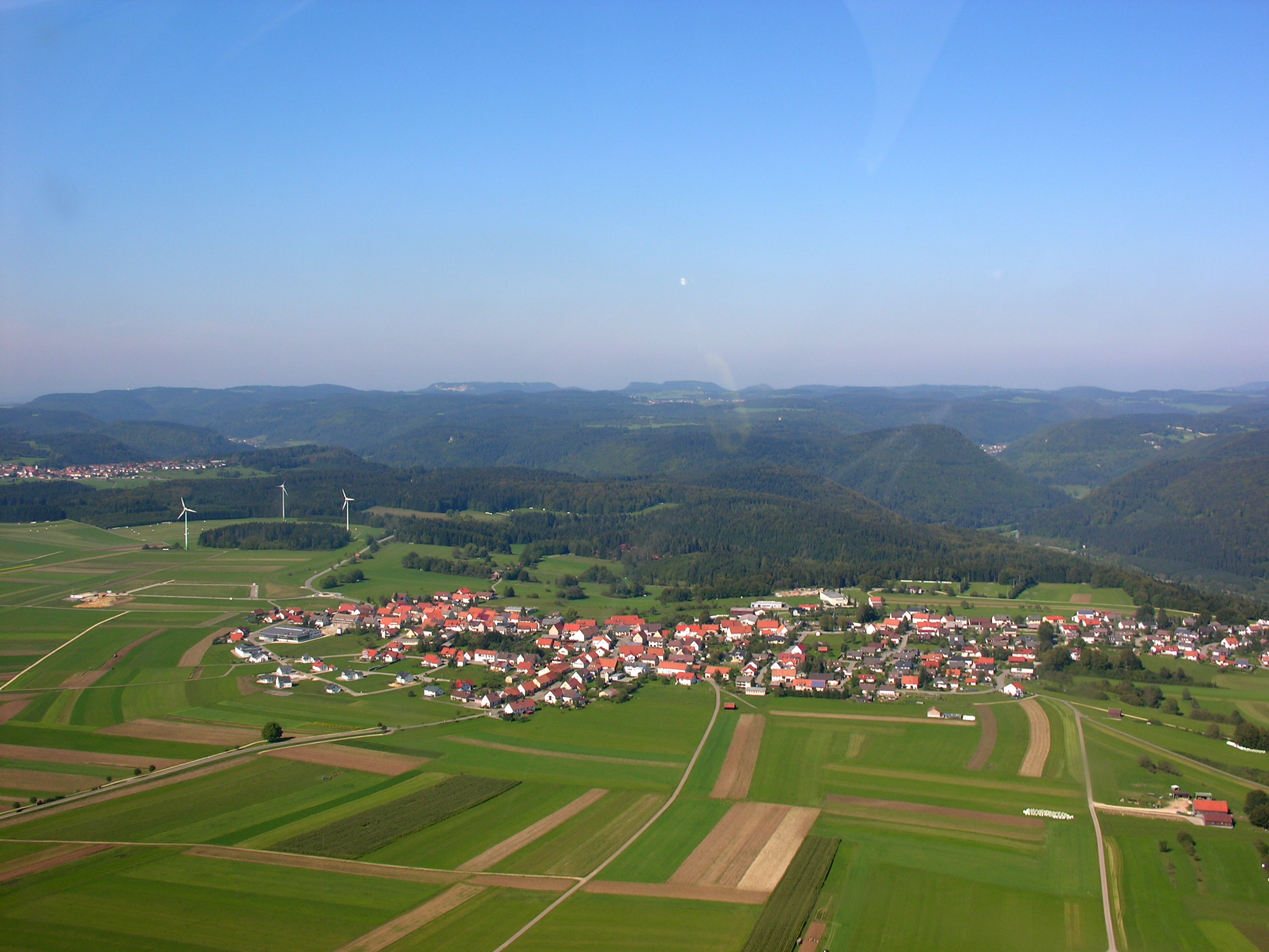 Germany, Baden-Württemberg, Aerial view of Renquishausen